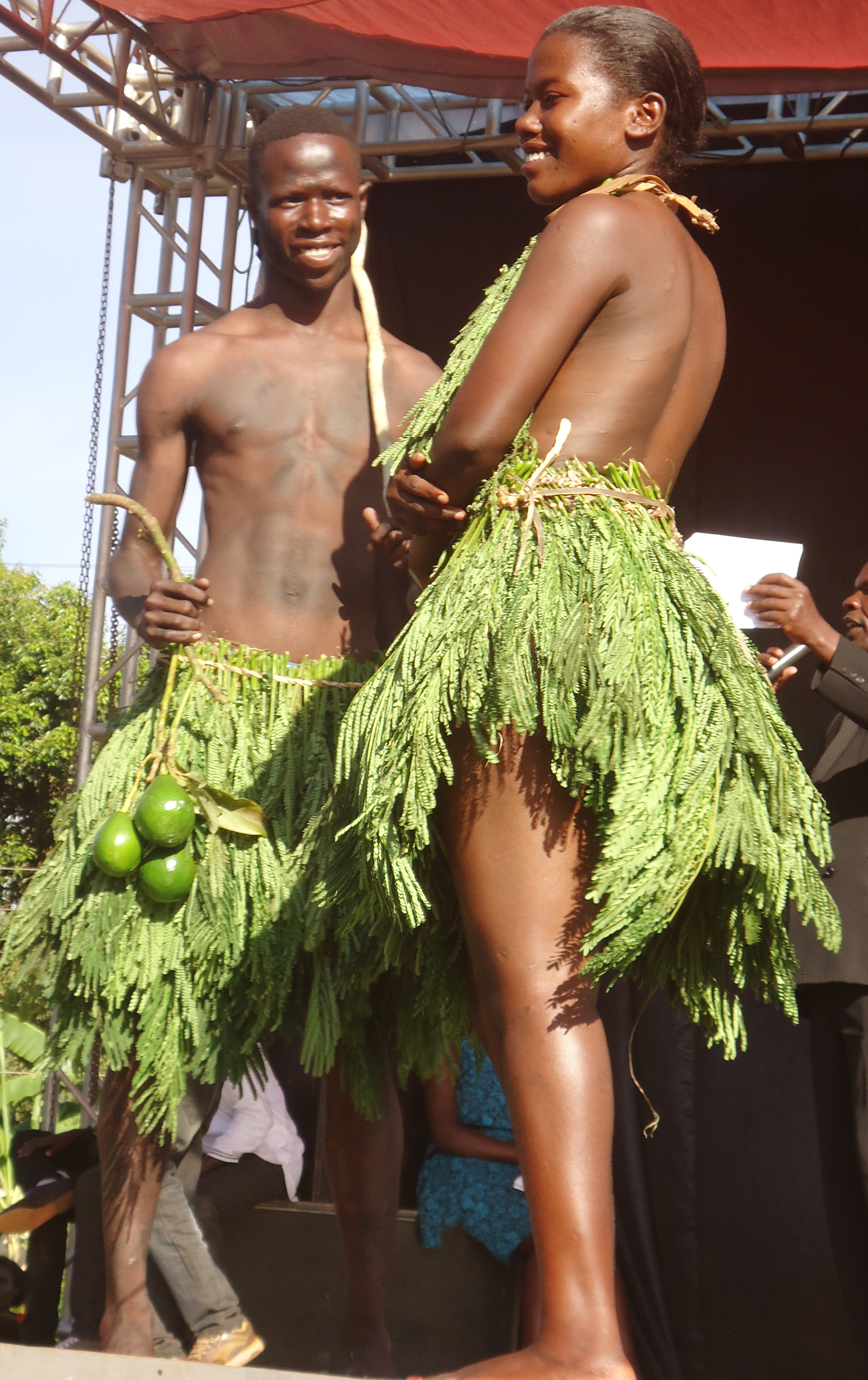 used fresh leaves to cover their private parts This is an image of Cultural Fashion or Adornment from Uganda